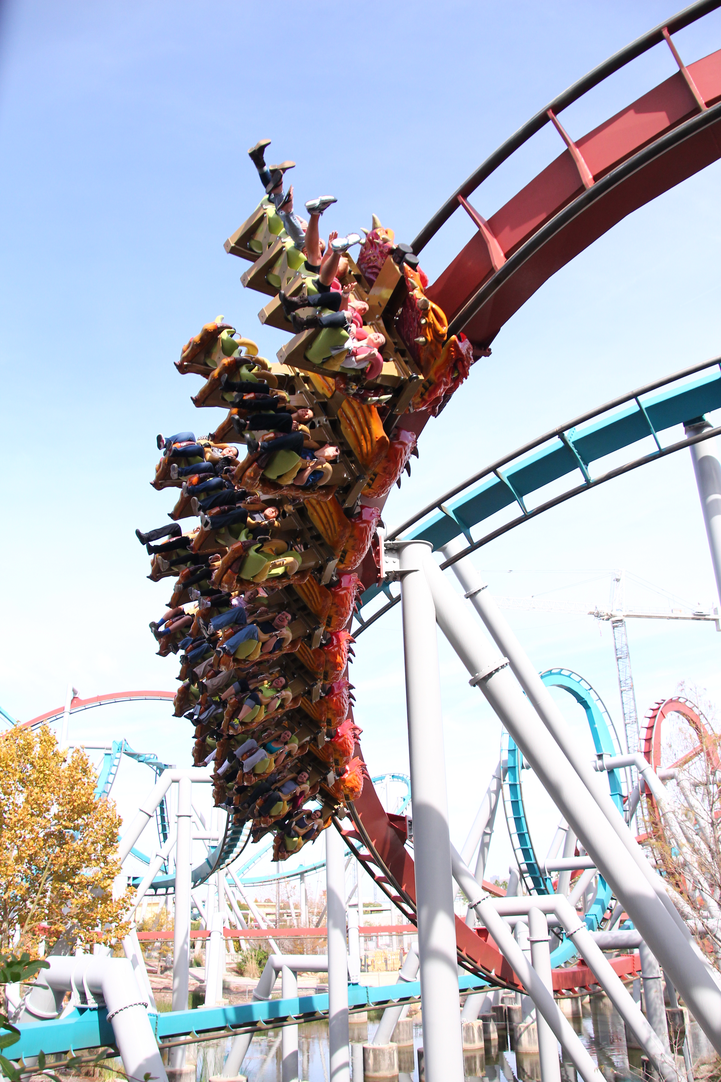 The red track of the Dragon Challenge roller coaster at Islands of Adventure at Universal Orlando in Orlando, Florida.